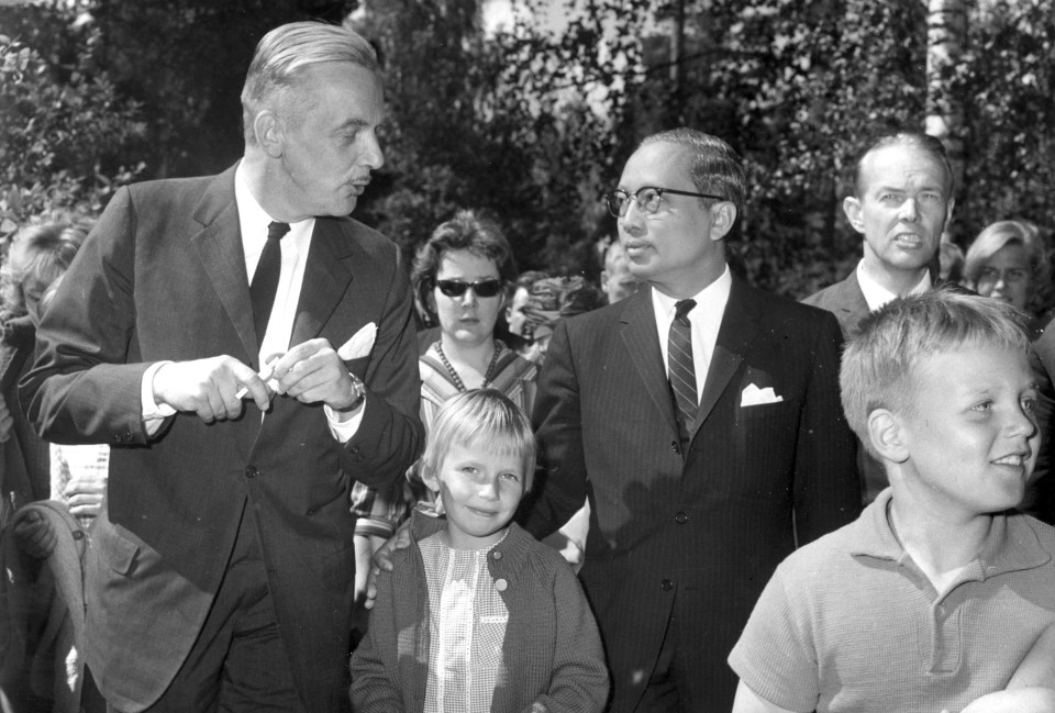 The Finnish diplomat Ralph Enckell (1913–2001) hosting U Thant, the Secretary-General of the United Nations, in Tapiola, Espoo, Finland in 1962.